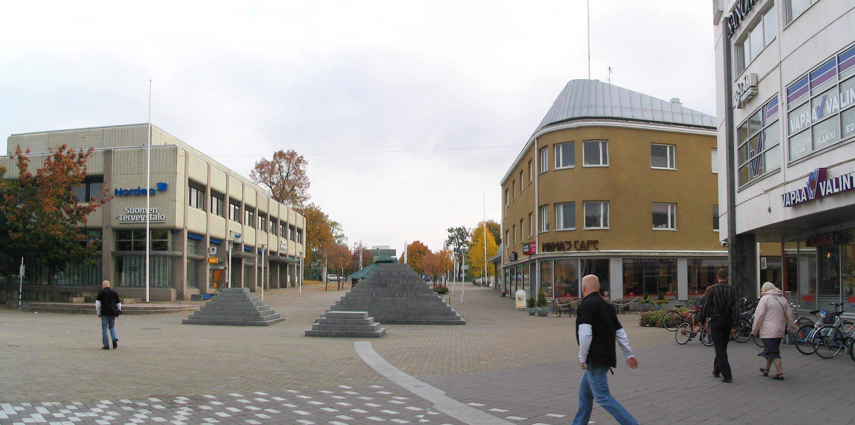 View from Valtakatu, Valkeakoski. Composition of multiple pictures.